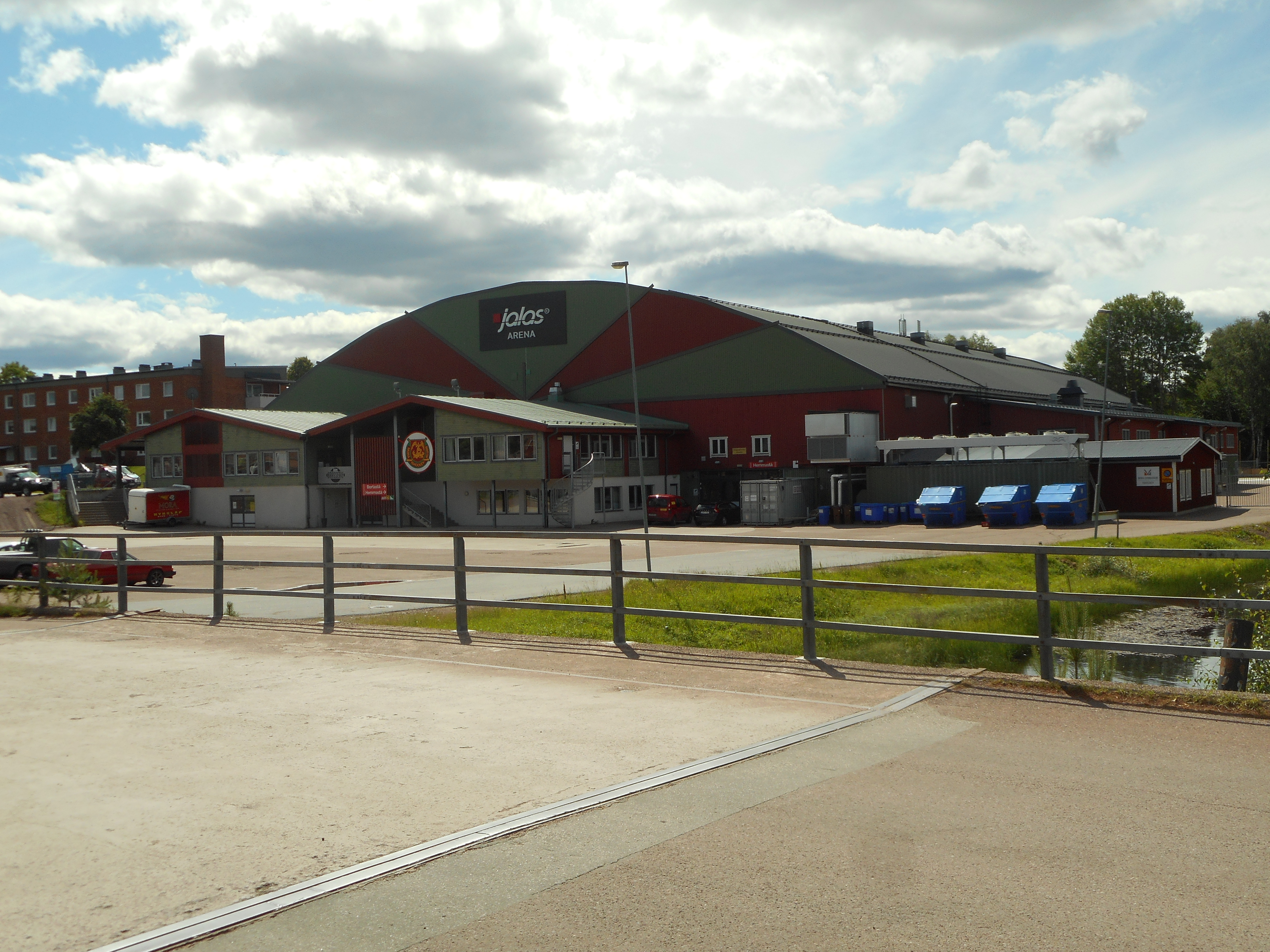 Jalas Arena venue for ice hockey at Hantverkaregatan 31, Mora, Sweden